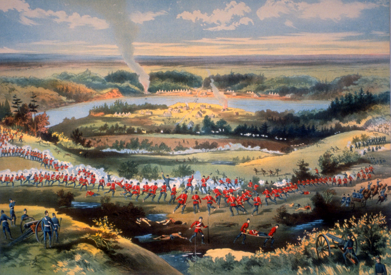 Print of the Battle of Batoche during the North-West Rebellion, based on sketches by Sergeant Grundy and others, published by Grip Printing & Publishing Co, in Toronto, Ontario, CanadaOriginal is 71.4cm x 52.8cm, colour lithograph on wove paper